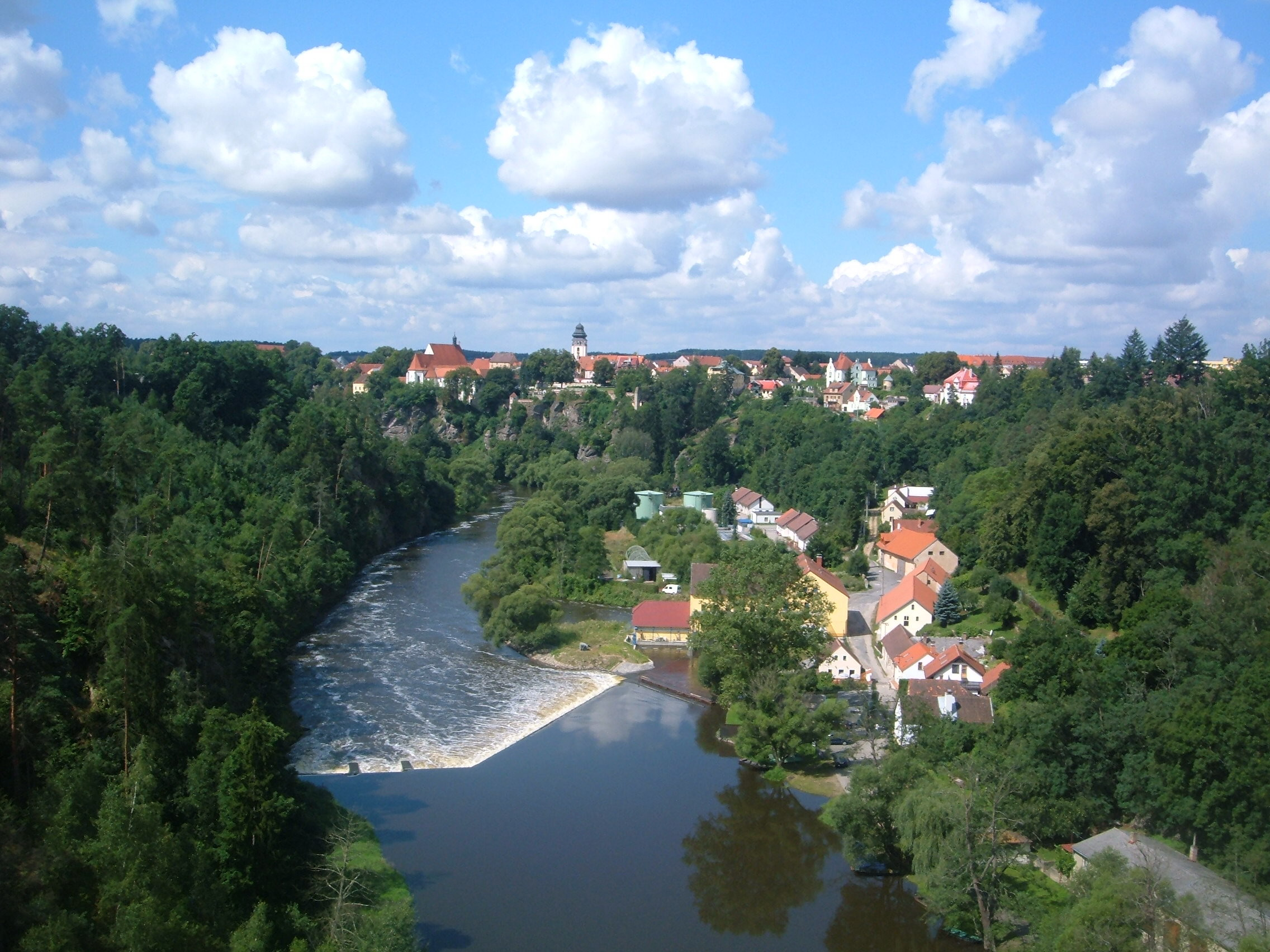 own work